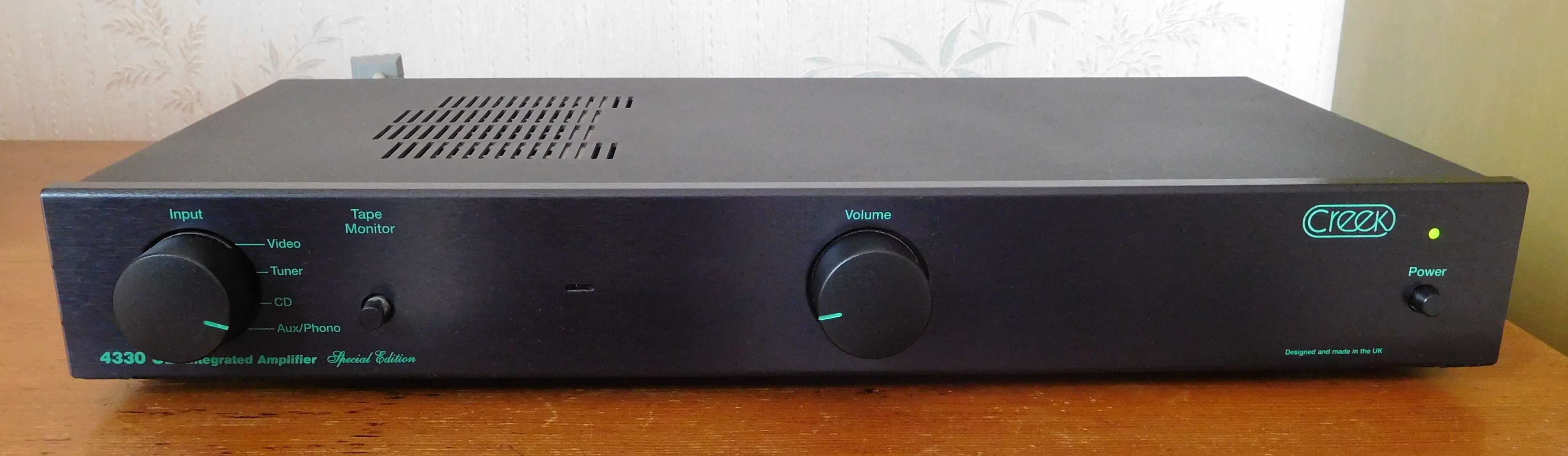 Creek 4330 SE Integrated Amplifier - Special Edition.